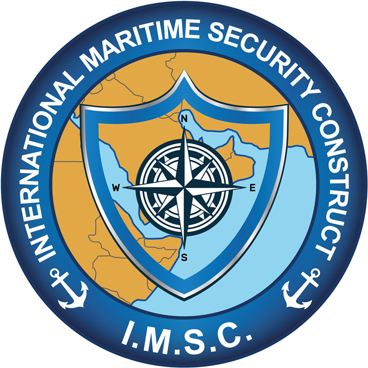 Logo of the International Maritime Security Construct, an organisation between the United States and 6 other members to foster security in the Persian Gulf region.